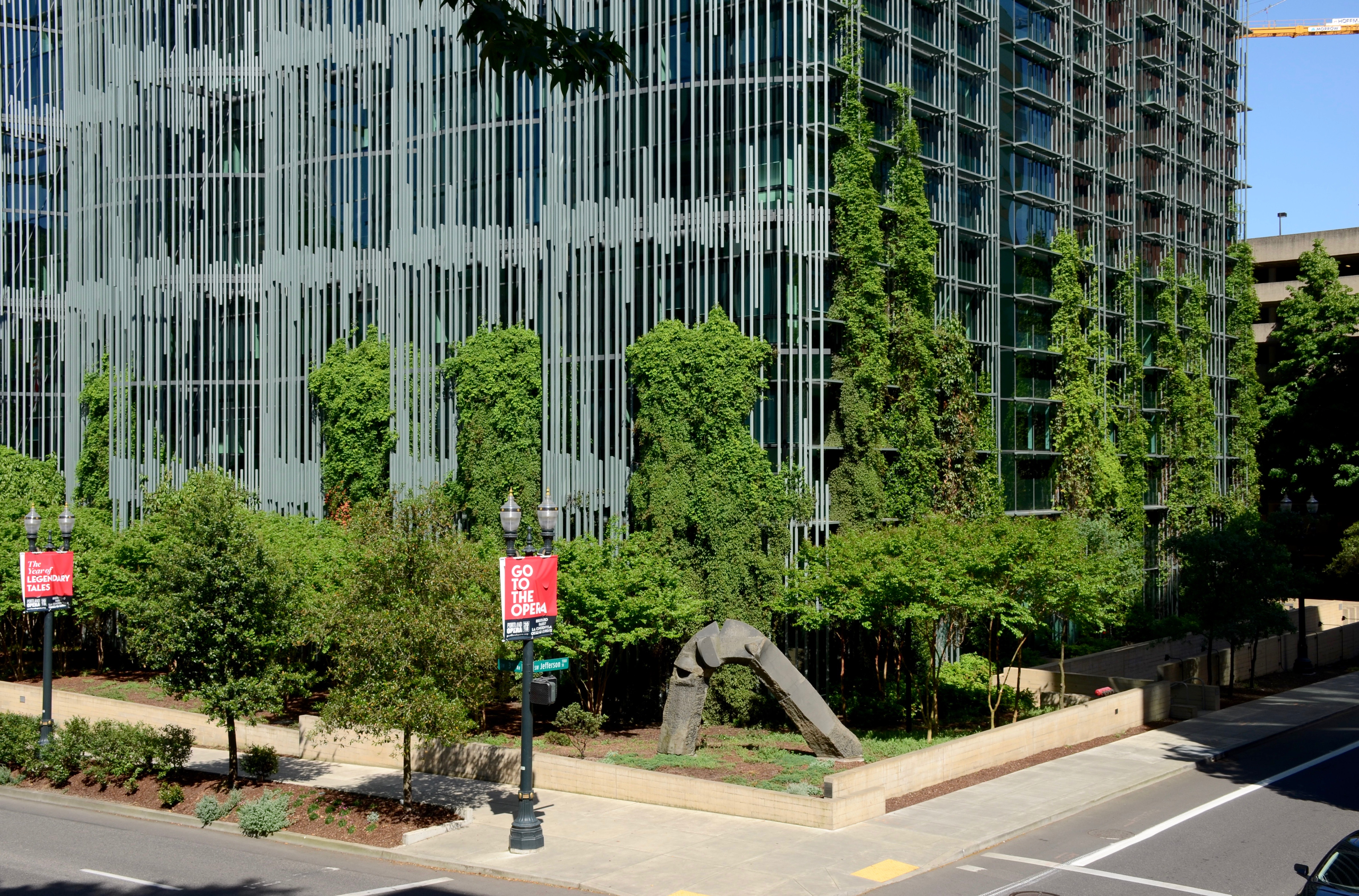 The lowermost portion of the 18-story Edith Green – Wendell Wyatt Federal Building, in downtown Portland, Oregon, viewed from the southwest. One of the "green" features added in an extensive 2009–13 renovation and redesign, which added an entirely new exterior covering, are deciduous vines growing upwards along the building's sides. They shed their leaves every fall, allowing light into the building during colder months of the year, and during warmer months, the vines provide shade, reducing the cost of cooling the building's interior.